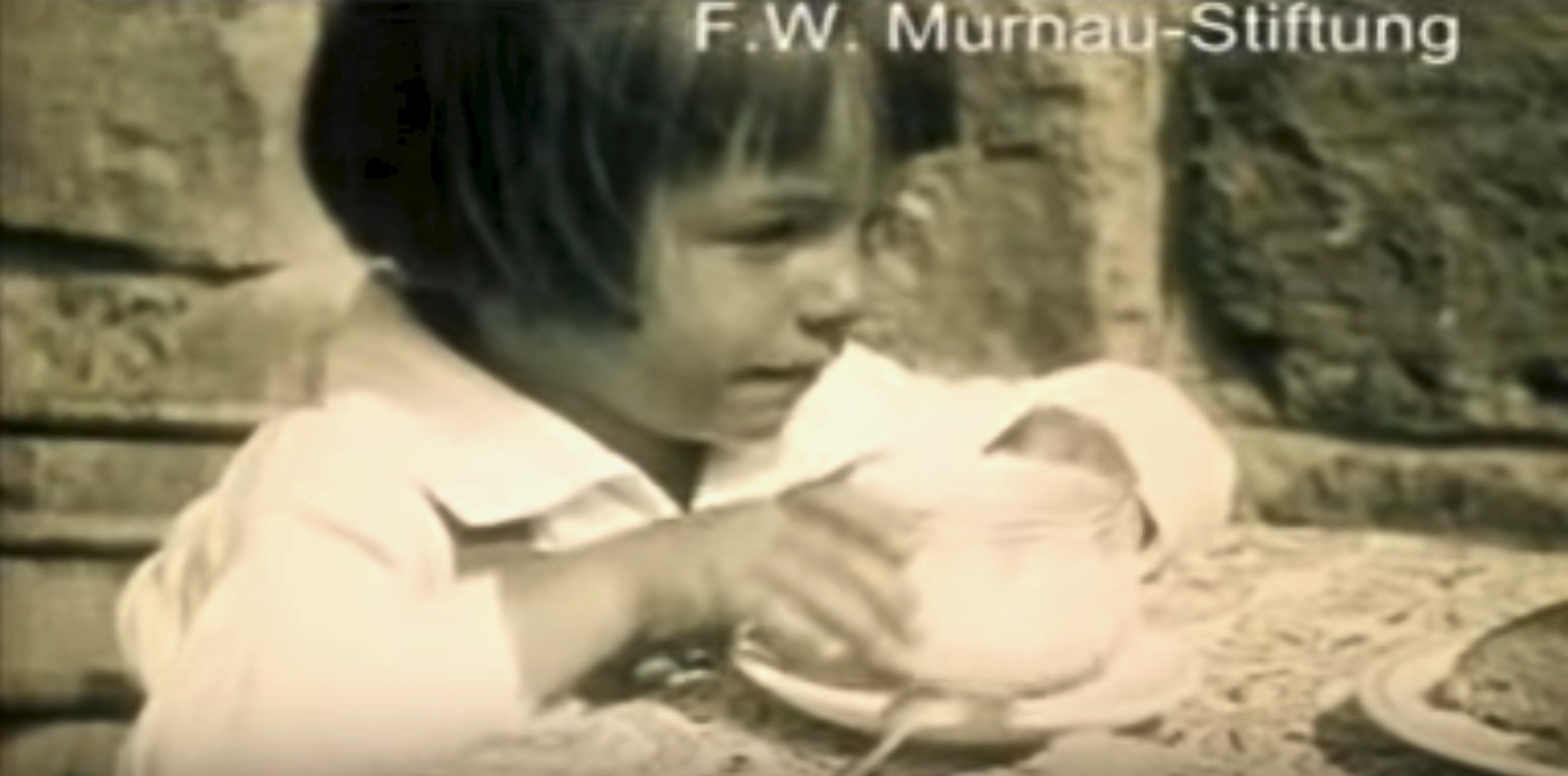 The four-year-old Arnold Ernst Fanck (1919–1994), eldest son of German moviemaker Arnold Fanck (1889–1974), as captured for the silent movie Der Berg des Schicksals (= The Mountain of Destiny) in 1923/24, where Luis Trenker (1892–1990) debuted. Arnold jun. played the son of the climber (Hannes Schneider) and his wife (Erna Morena). Cameramen were his father Arnold Fanck, Sepp Allgeier, Herbert Oettel, Eugen Hamm, and Hans Schneeberger.